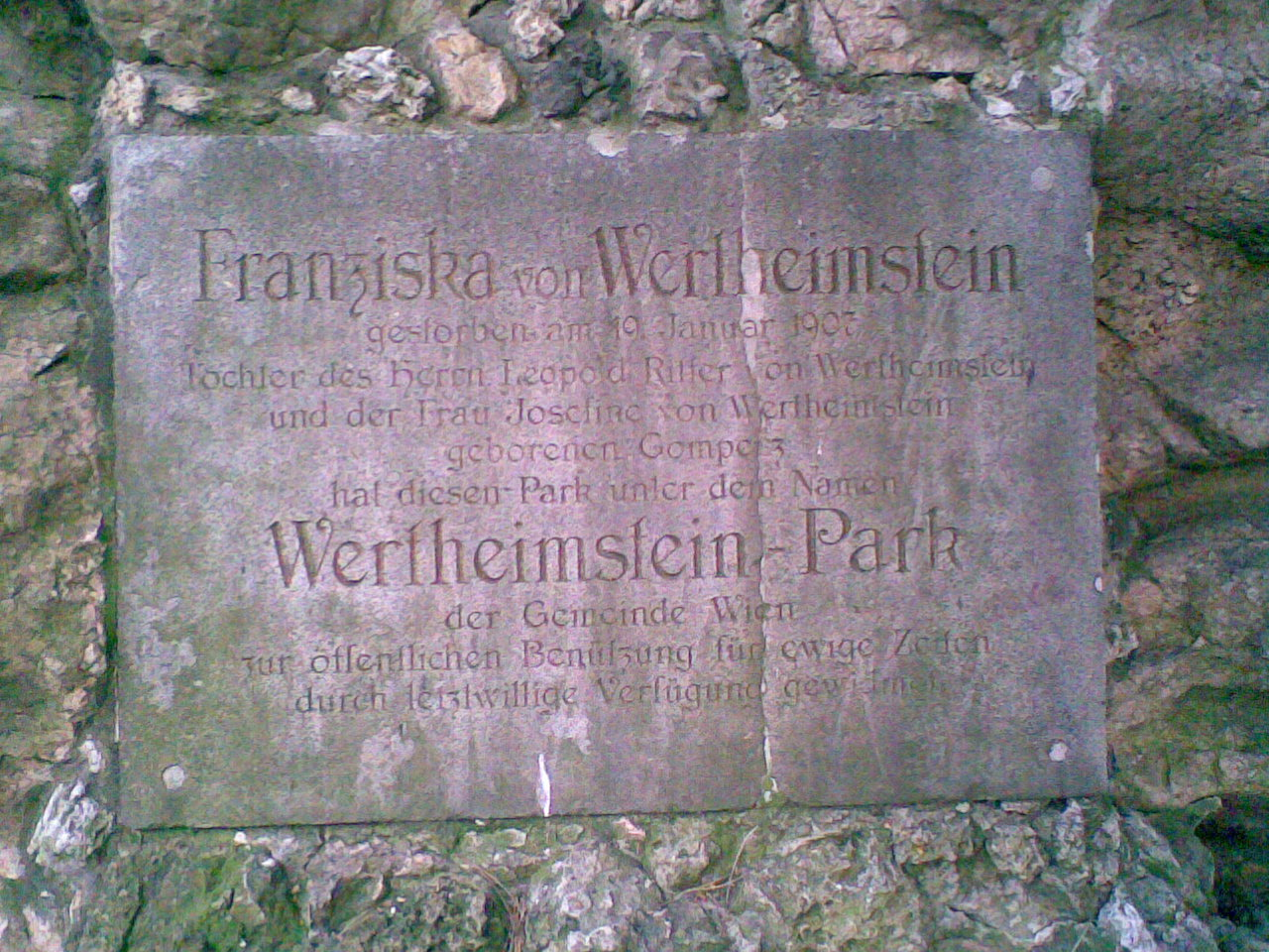 Stoneboard in Wertheimsteinpark in Döbling